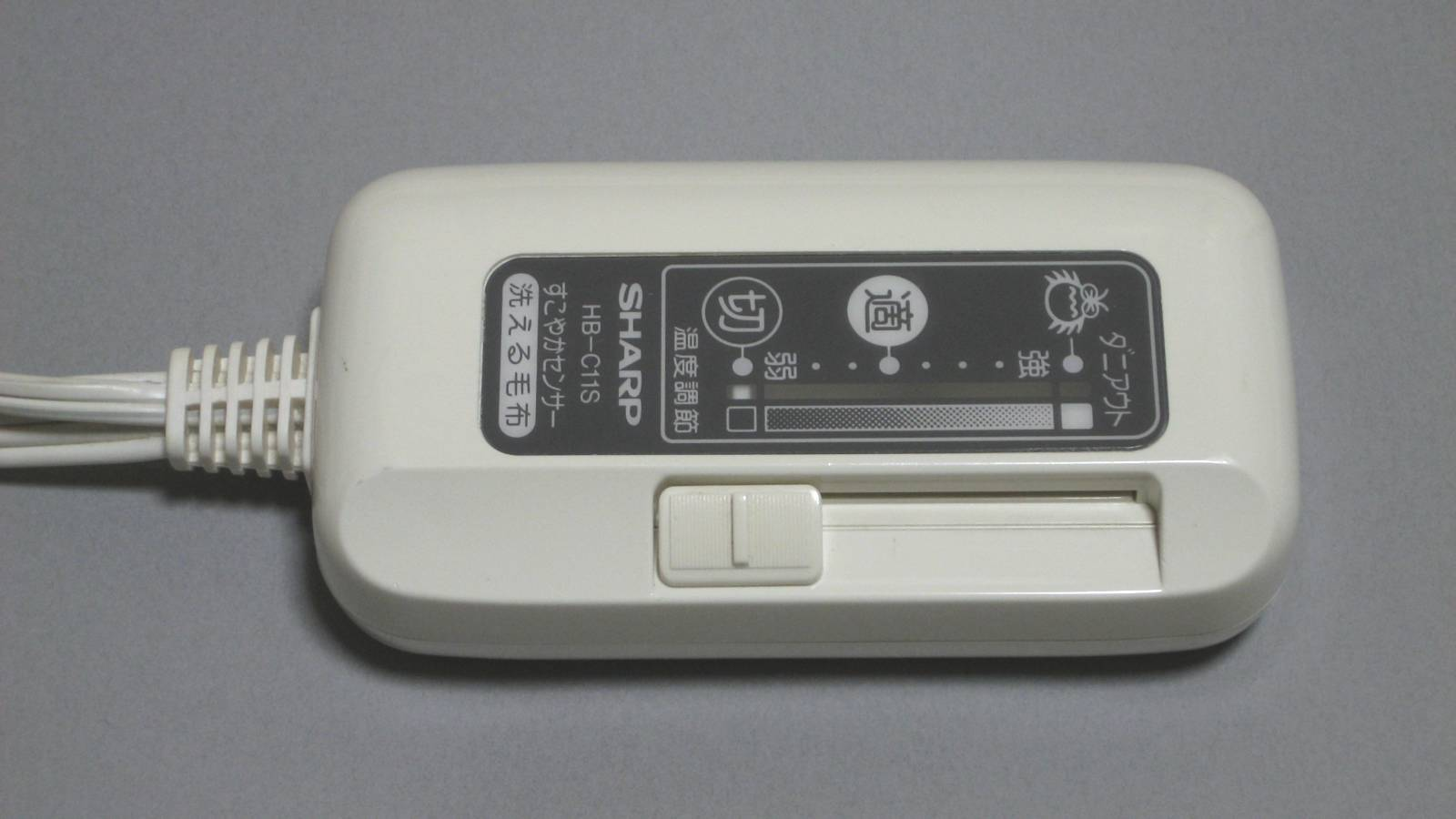 Sharp HB-C11S (1992) is an electric blanket.